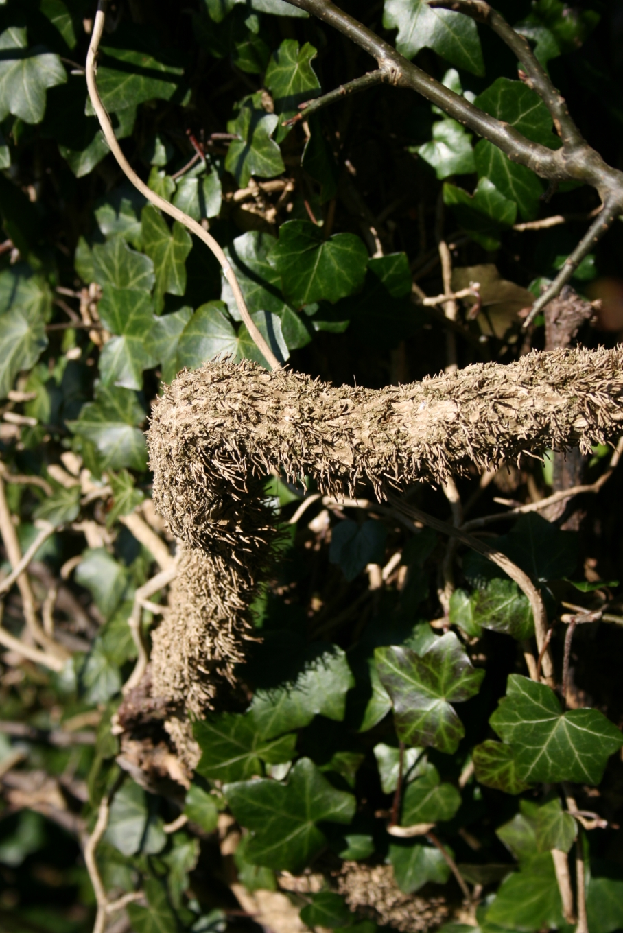 Hedera helix: Aerial roots